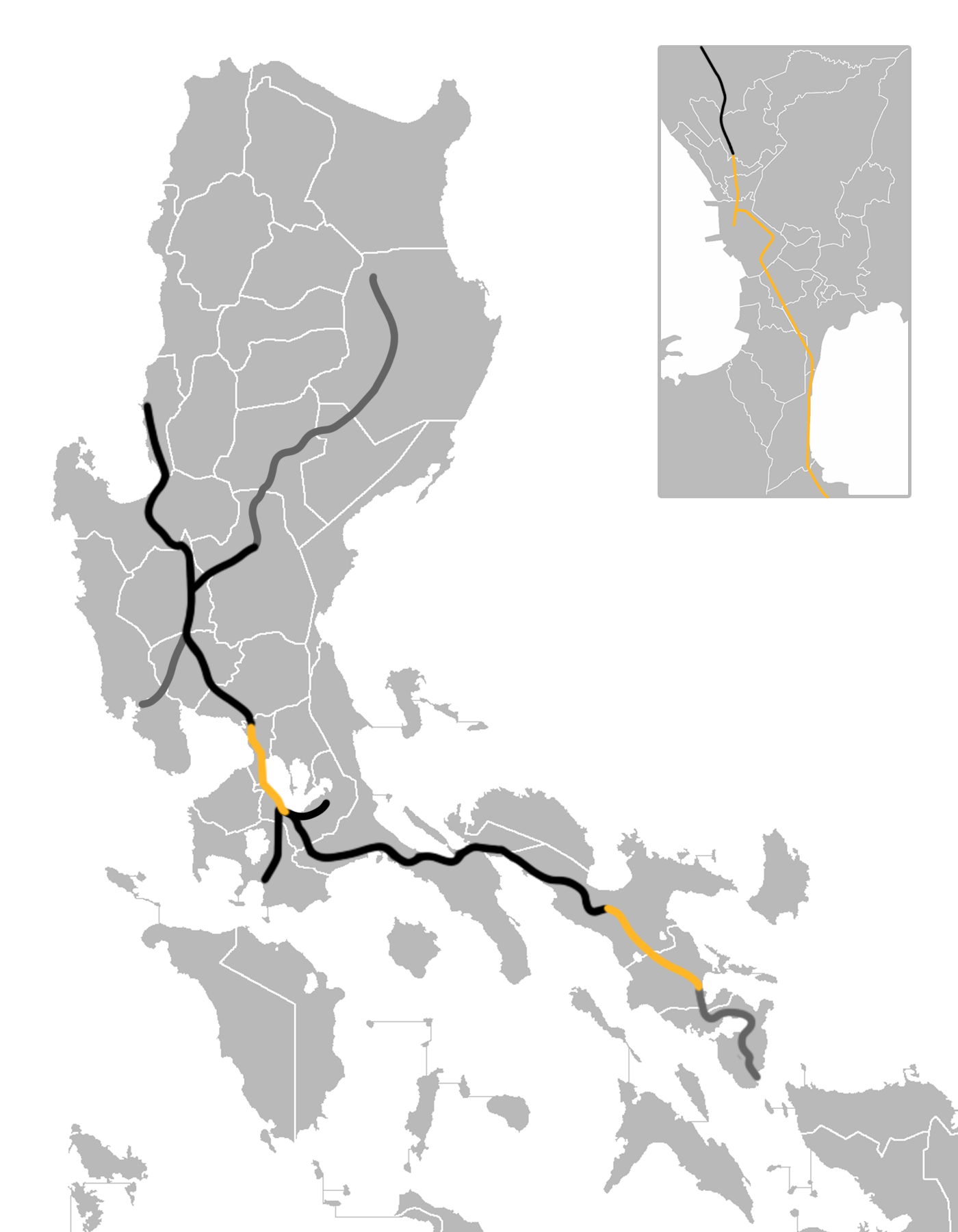 A Philippine National Railways map, which is based on this image. Made by Itsquietuptown.